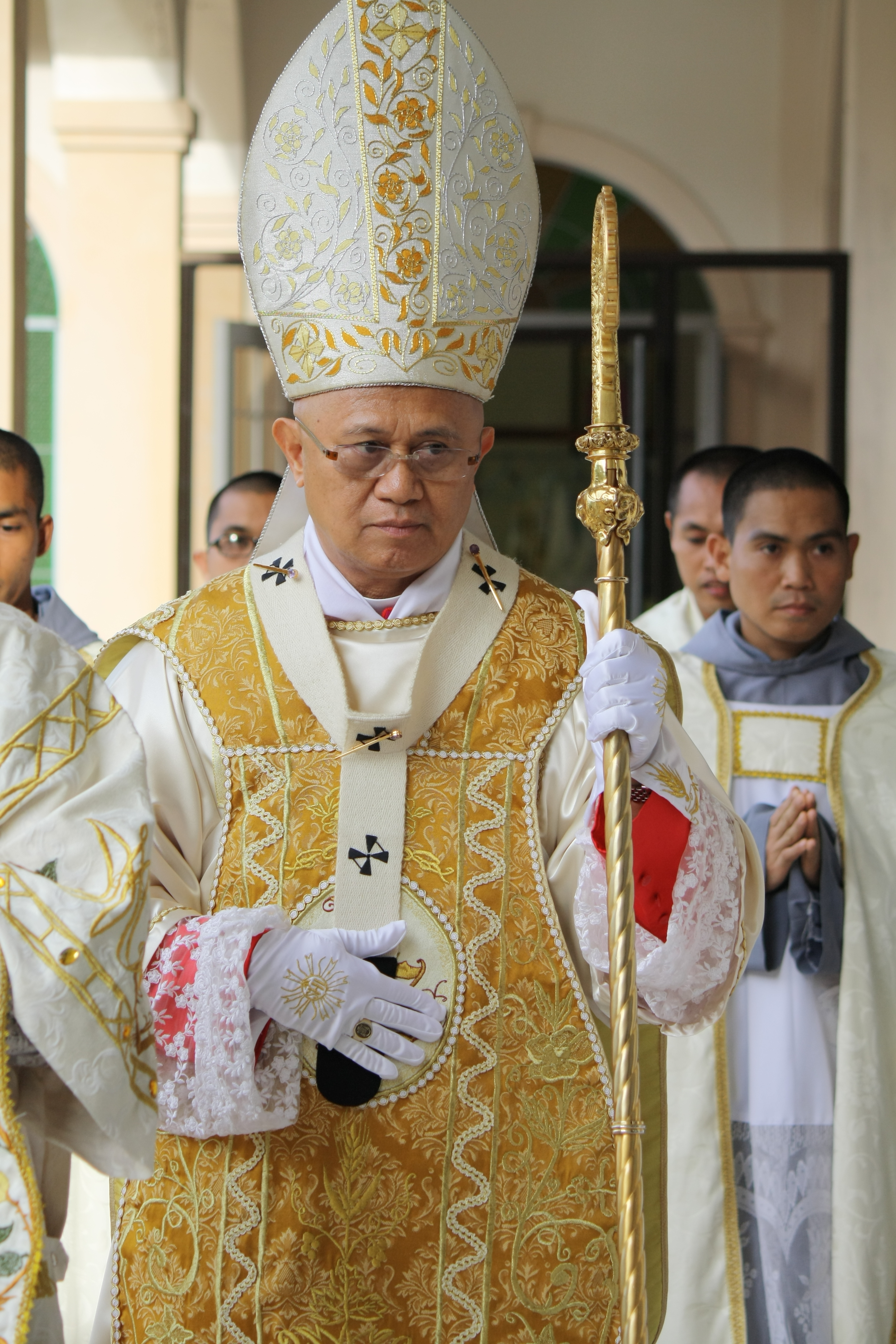 Archbishop Jose Palma of Cebu wears the traditional Roman Catholic vestments while celebrating a Solemn Pontifical High Mass at the church of Mary Coredemptrix in Cebu City, Philippines. Photo by Arnold Carl Fernan Sancover.